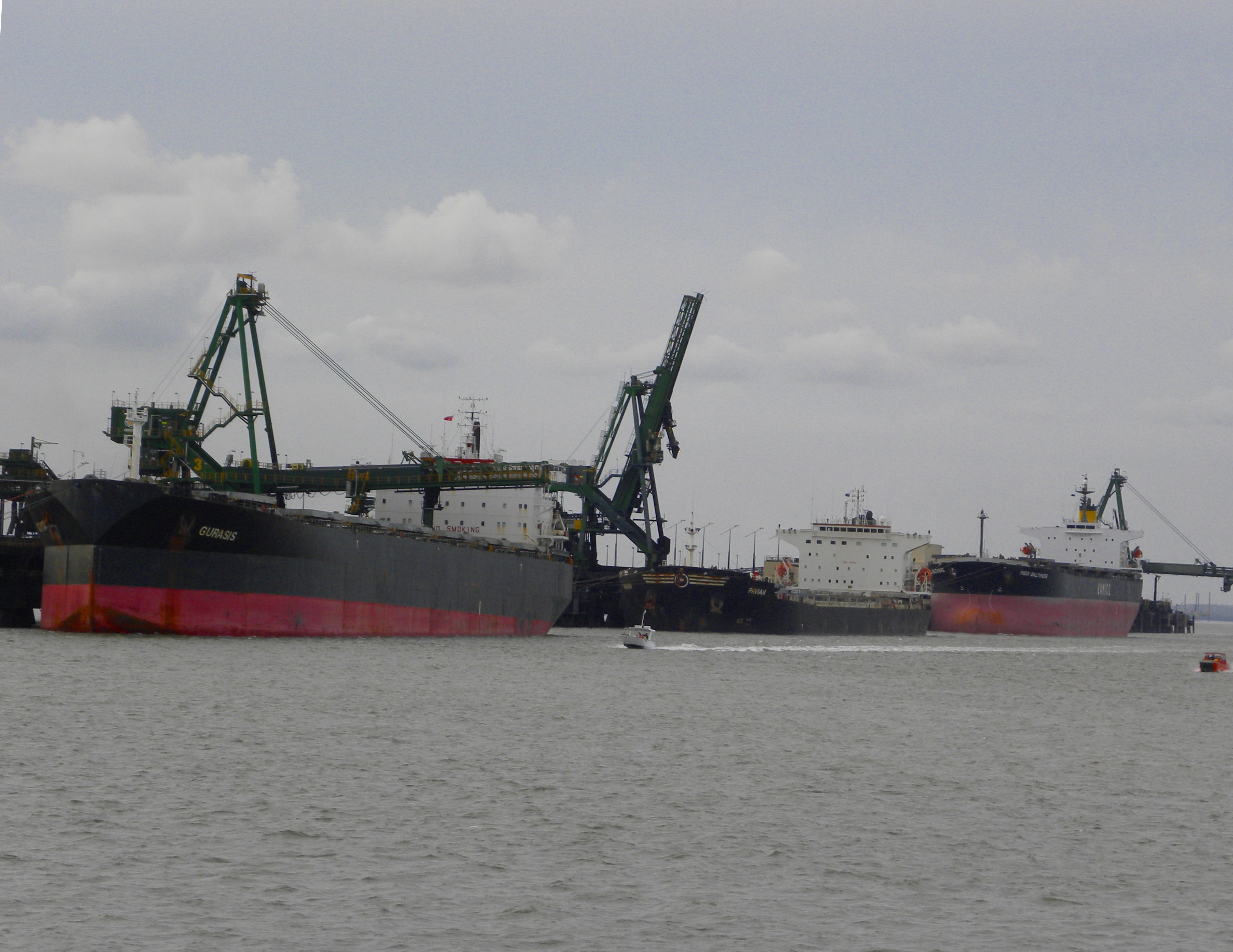 Cargo ships in Gladstone Harbour, Central Queensland, Australia GURASIS IMO Number: 9129574 MMSI Number: 538003286 Callsign: V7PT8 Length: 225 m Beam: 32 m Flag: Marshall Islands PAVIAN IMO Number: 9248904 MMSI Number: 306841000 Callsign: PJFB Length: 225 m Beam: 32 m Flag: Netherlands Antilles MEDI BALTIMORE IMO Number: 9287168 MMSI Number: 247255300 Callsign: ICLW Length: 225 m Beam: 32 m Flag: Italy